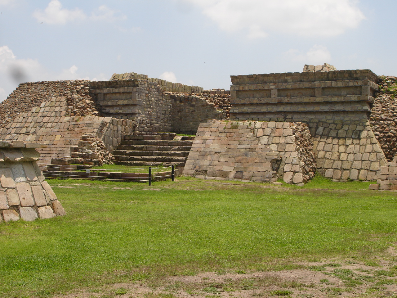 Piramide de Plazuelas de Pénjamo, la Zona Arqueologica más importante en el Estado de Guanajuato